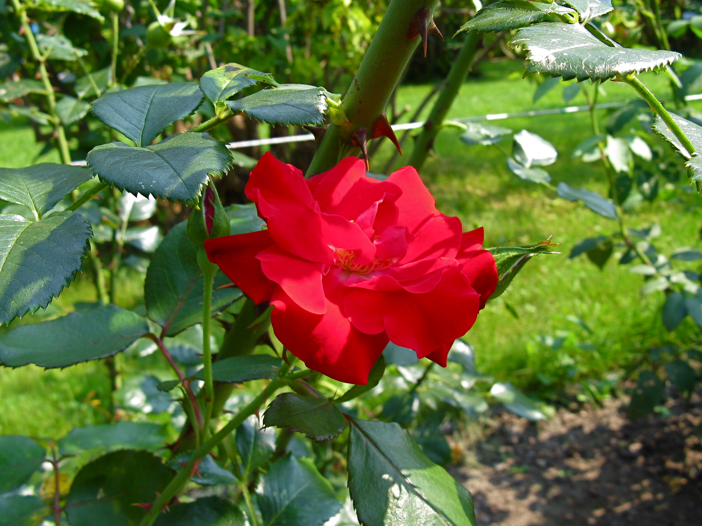 Rosa kordesii, 'Parkdirektor Riggers' - Kordes 1957.